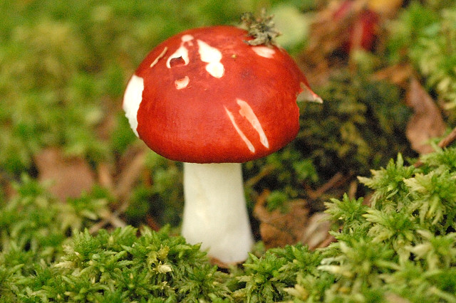 Russula emetica from Commanster, Belgium. The determination of the species shown in this picture has been verified.